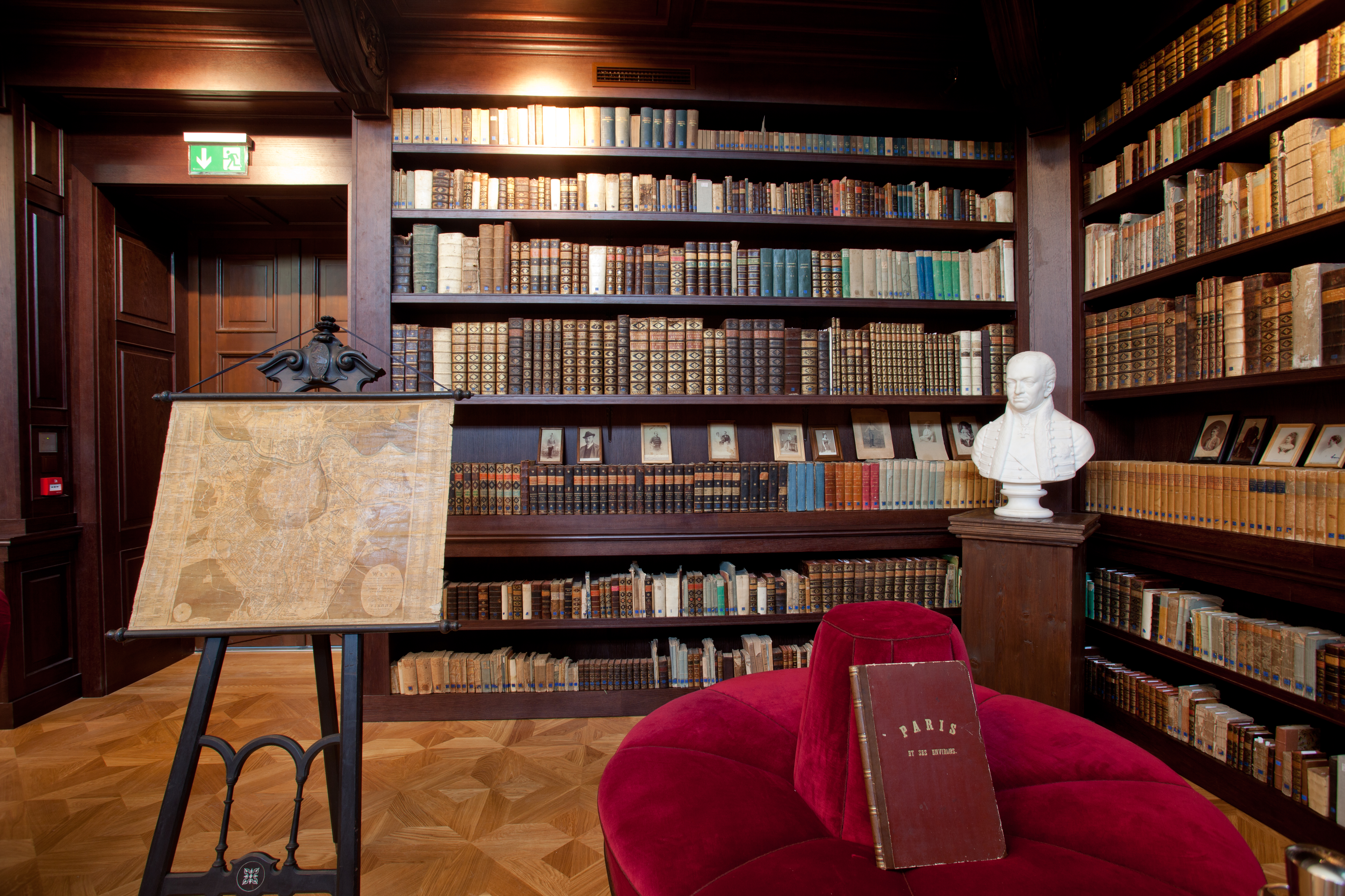 Historical library of the Apponyi genus (managed by the SNL), located in Oponice in situ - in manor-house of Apponyi.